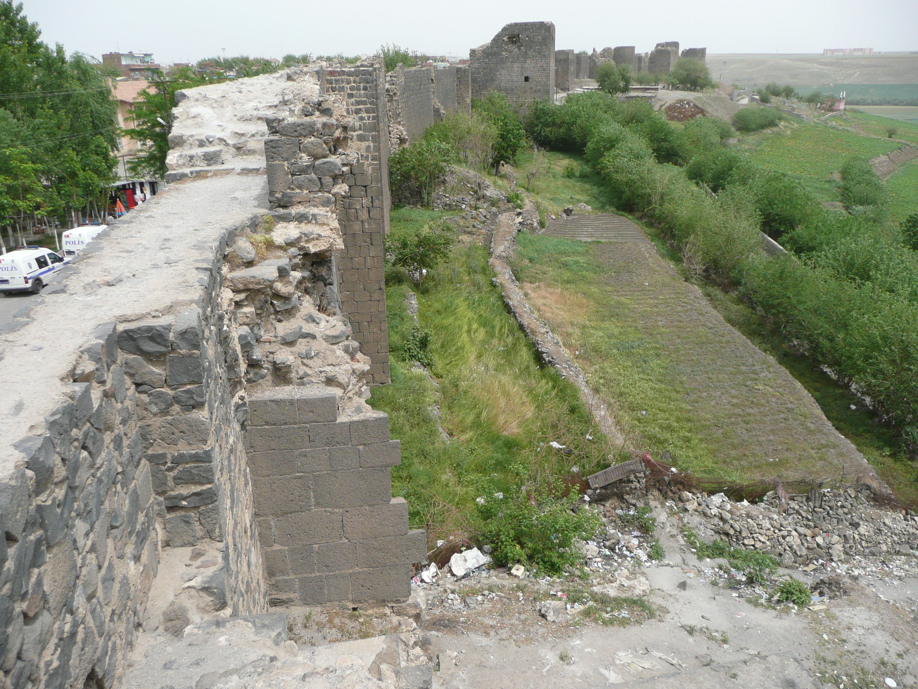 Photographs from Diyarbakir, Turkey